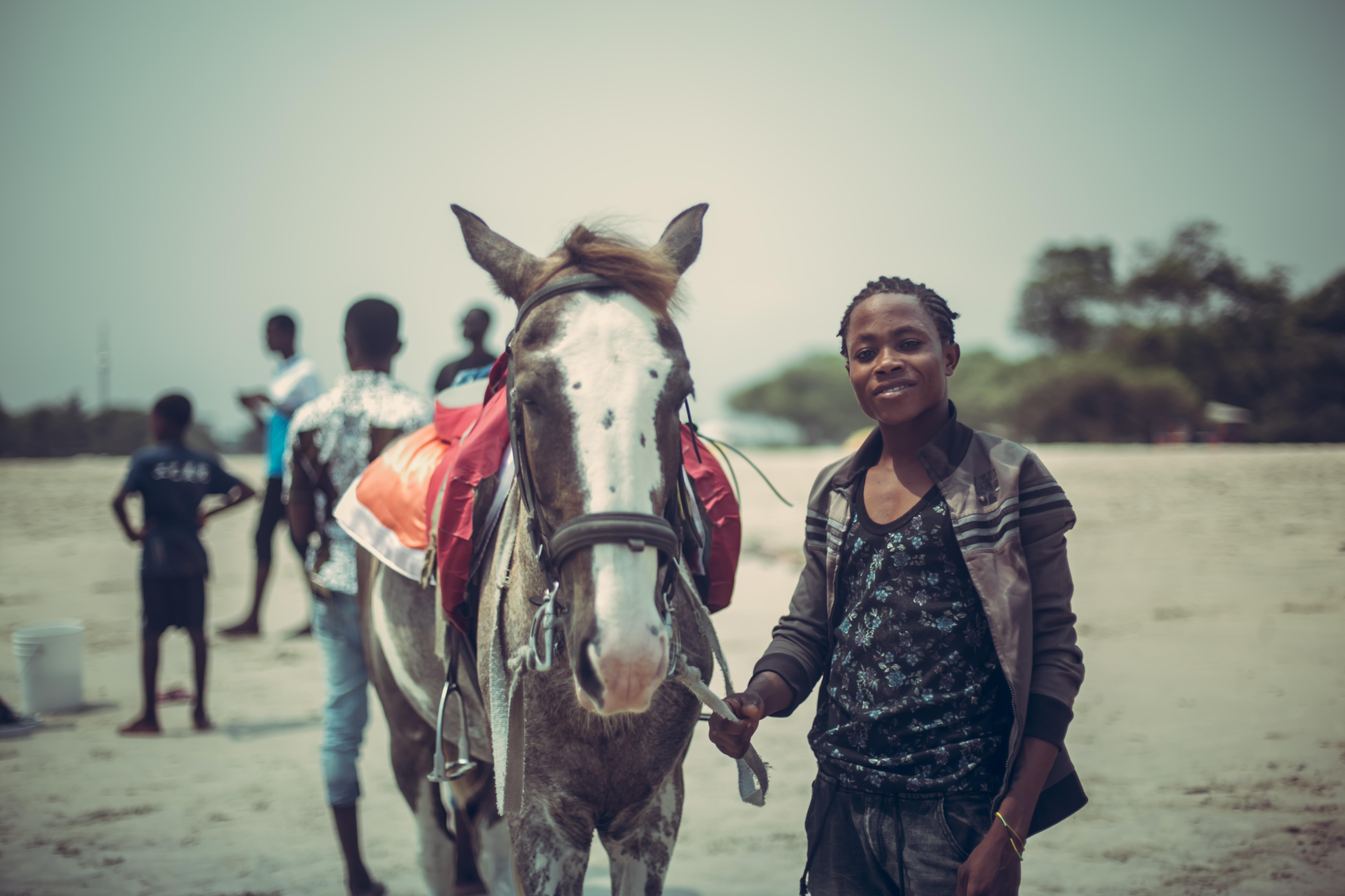 This is an image with the theme "Play" from: Ghana